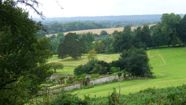 Walls of Chilworth Manor garden These walls come into view from a steep footpath coming down from St Martha's church.